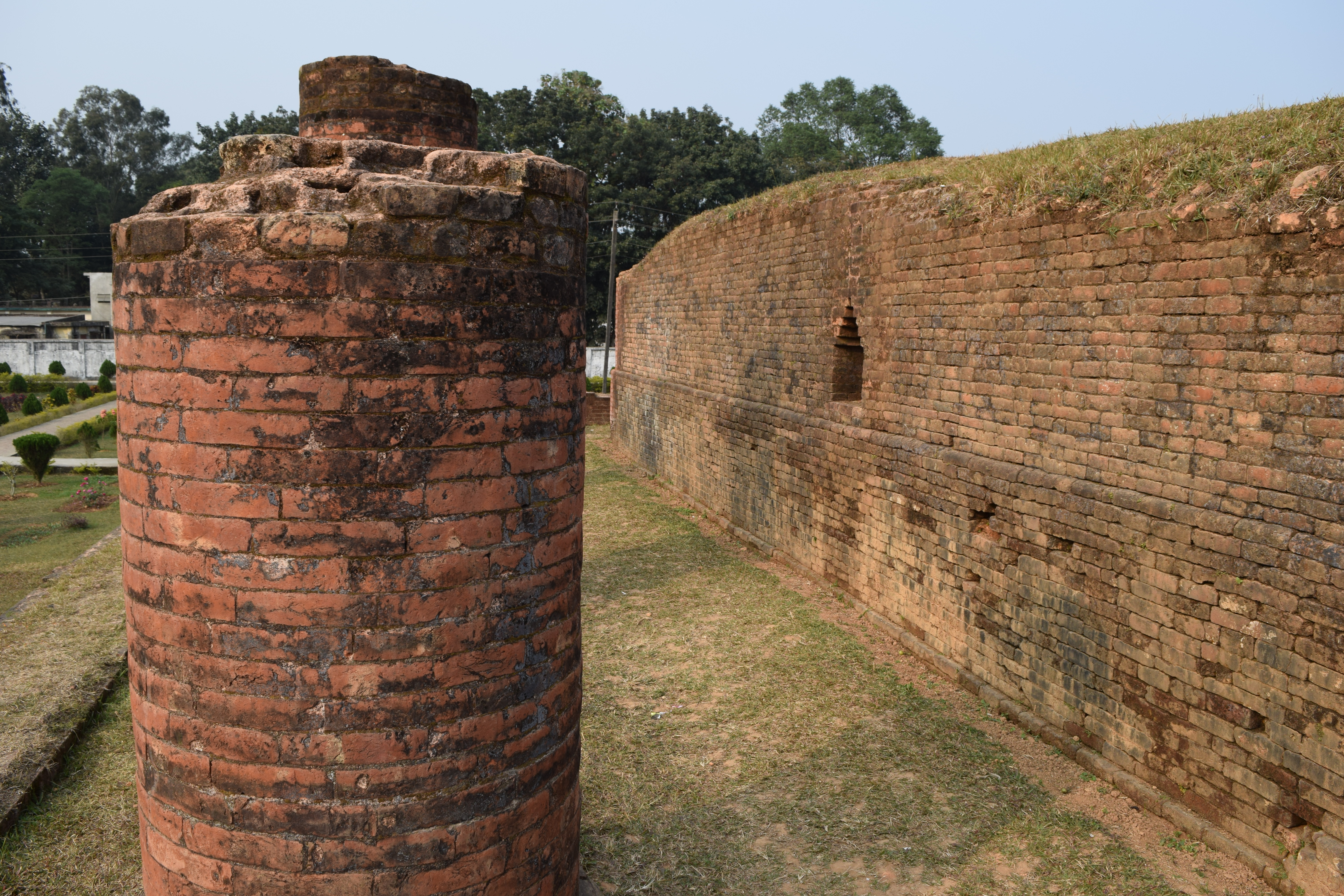 Pillar of temple at Shalban Bihar